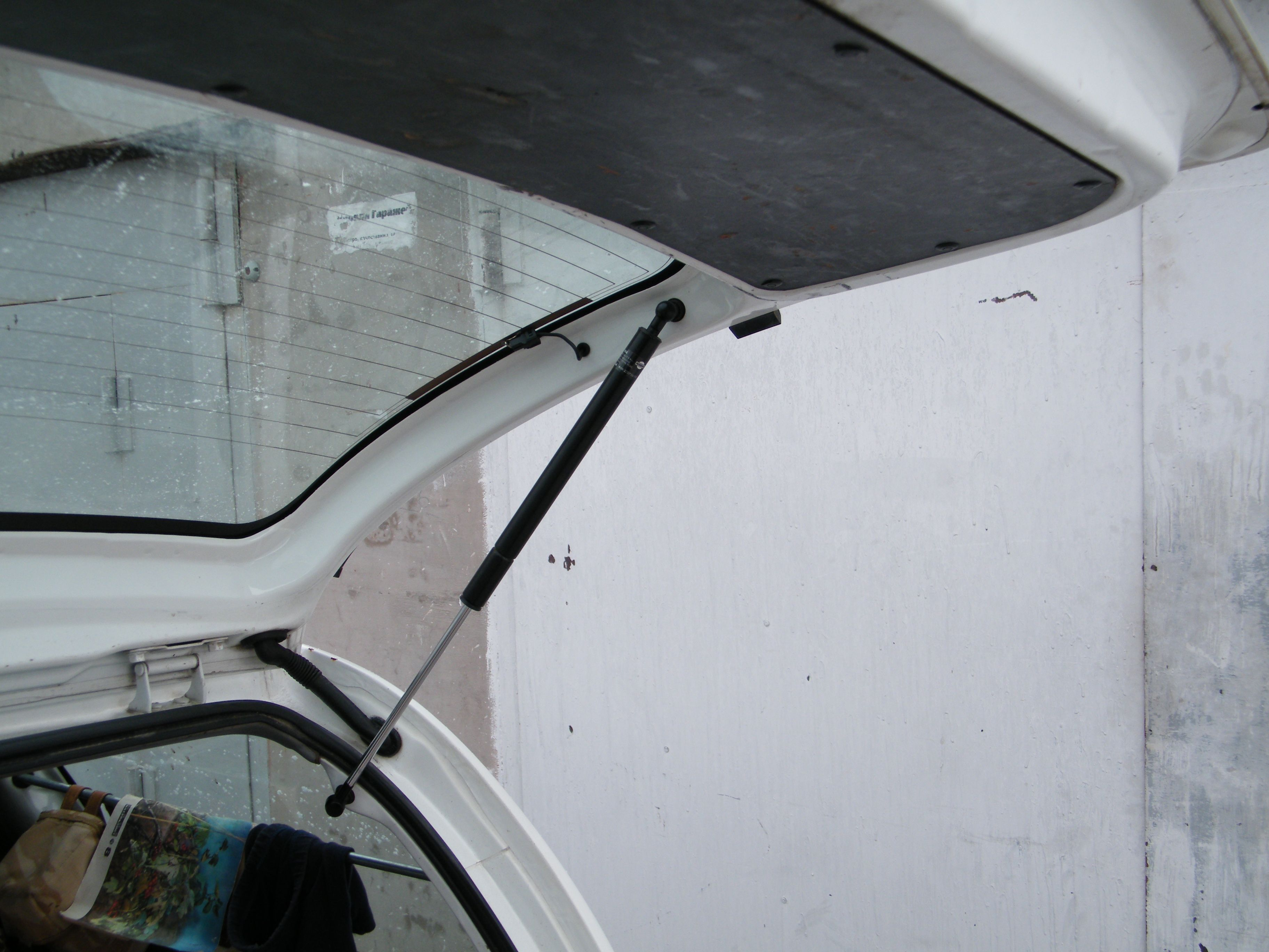 Gas springs